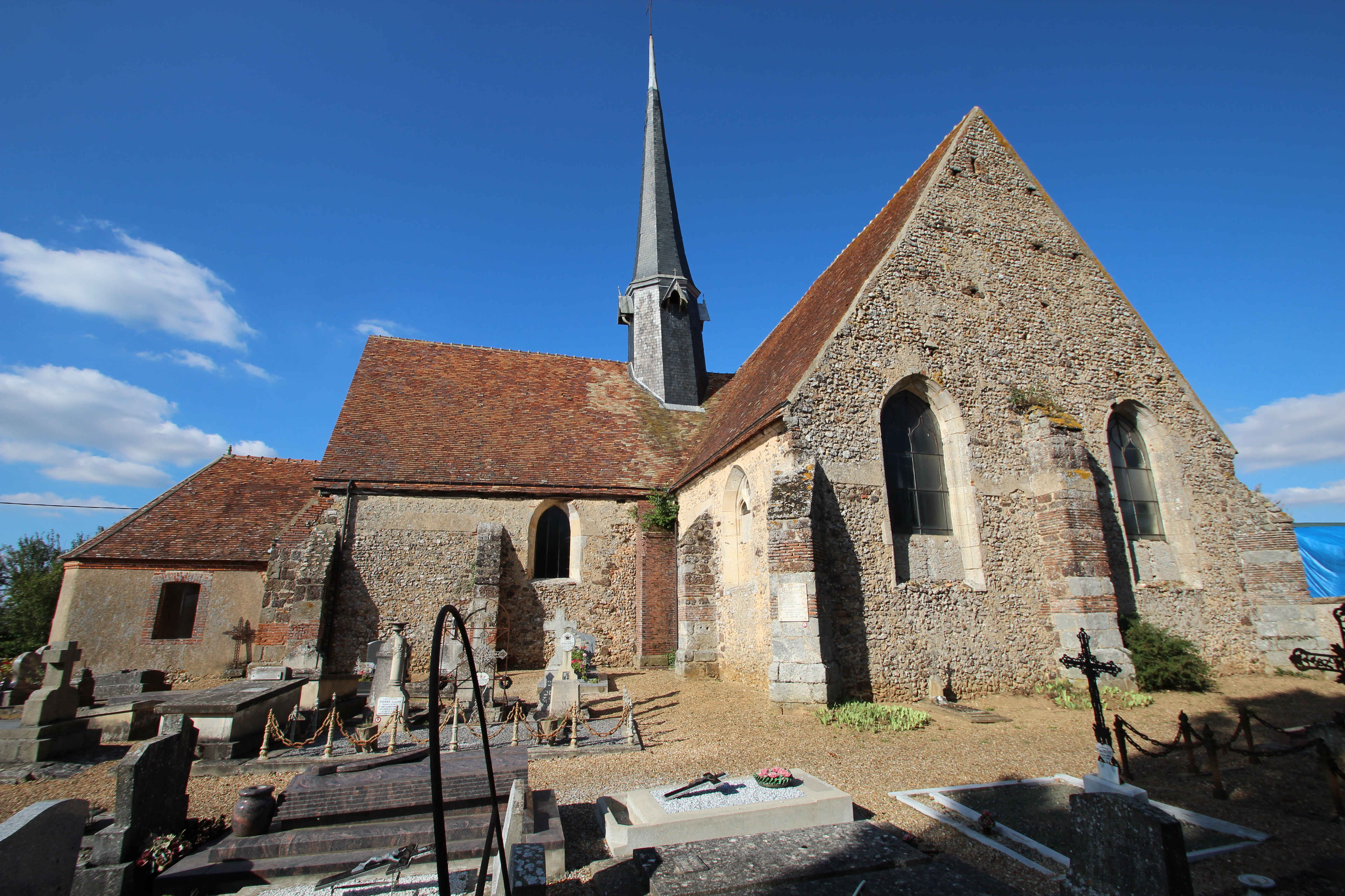 Saint-Sauveur church in Saint-Sauveur-Marville, France. . Object location48° 35′ 44.51″ N, 1° 16′ 55.41″ E